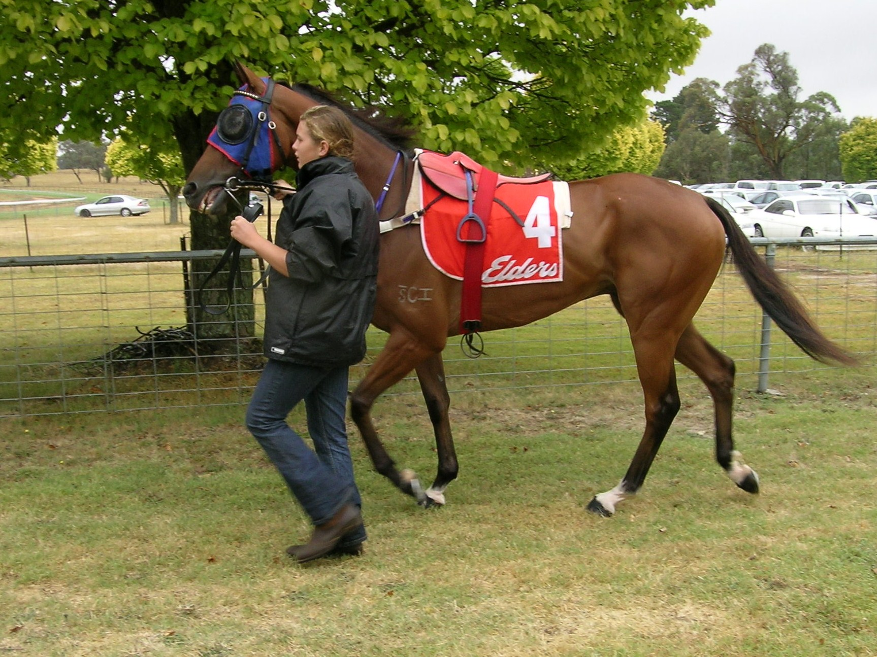 Mesh pacifiers covering the eyes of a Thoroughbred racehorse.